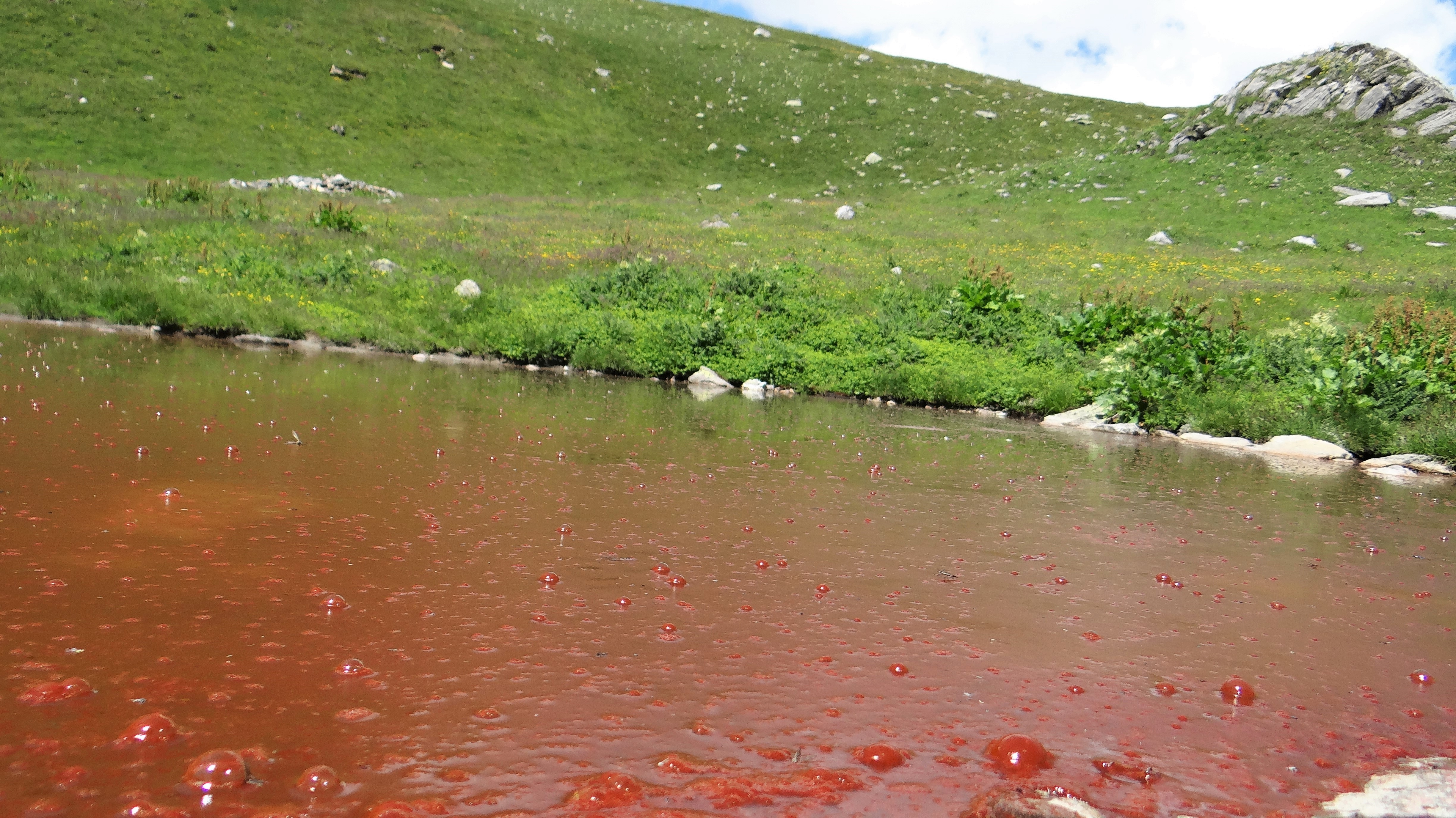 Cyanobacteria in Black Hollow, near White Lake 2429 m , Vanoise National Park, summer 2019